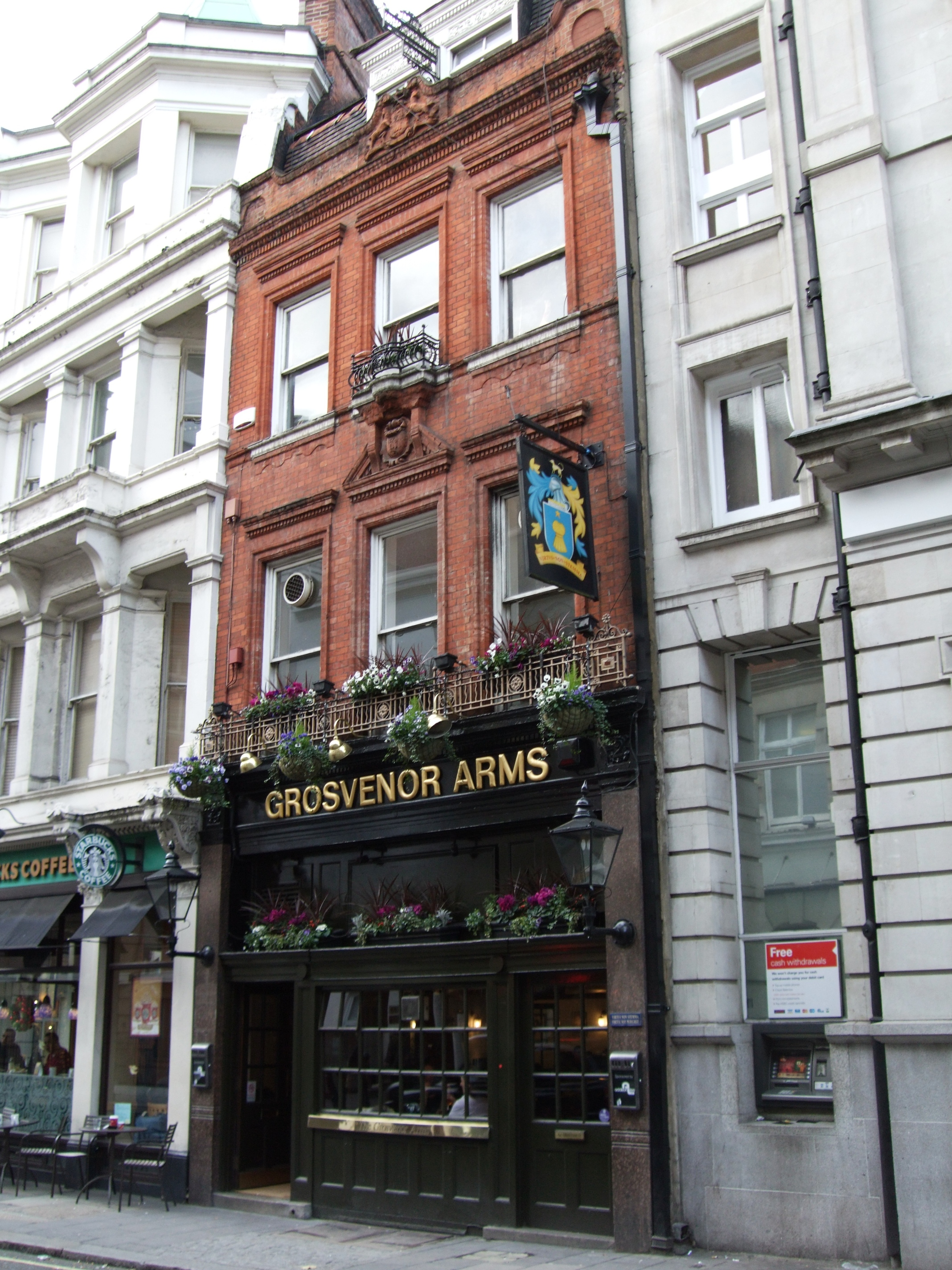 Inconspicuous Mayfair pub, which gets busy as anywhere does on a Friday evening, but with reasonable prices for the area and probably as decent as you'll get. Of course, as of March 2011, it's closed (see comment). Address: 2 Grosvenor Street (formerly Lower Grosvenor Street). Owner: The Only Pub Co (former). Links: Randomness Guide to London Fancyapint Beer in the Evening Dead Pubs (history)